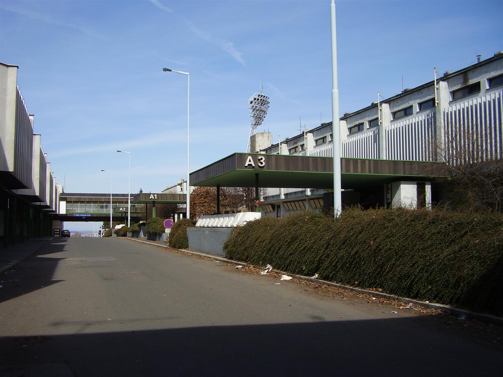 View at street next to Evžen Rošický stadium in Prague